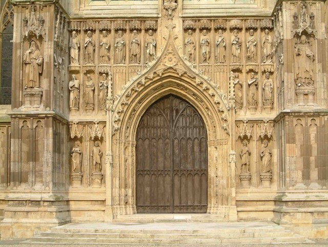 Great West Door of Beverley Minster, Beverley, East Riding of Yorkshire, England.